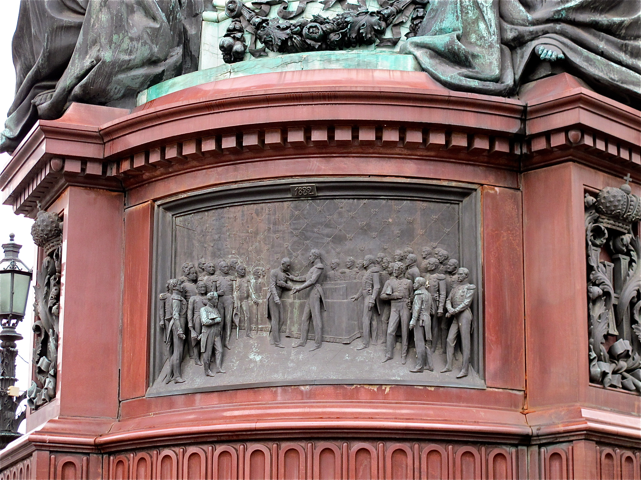 Detail of the Monument to Nicholas I